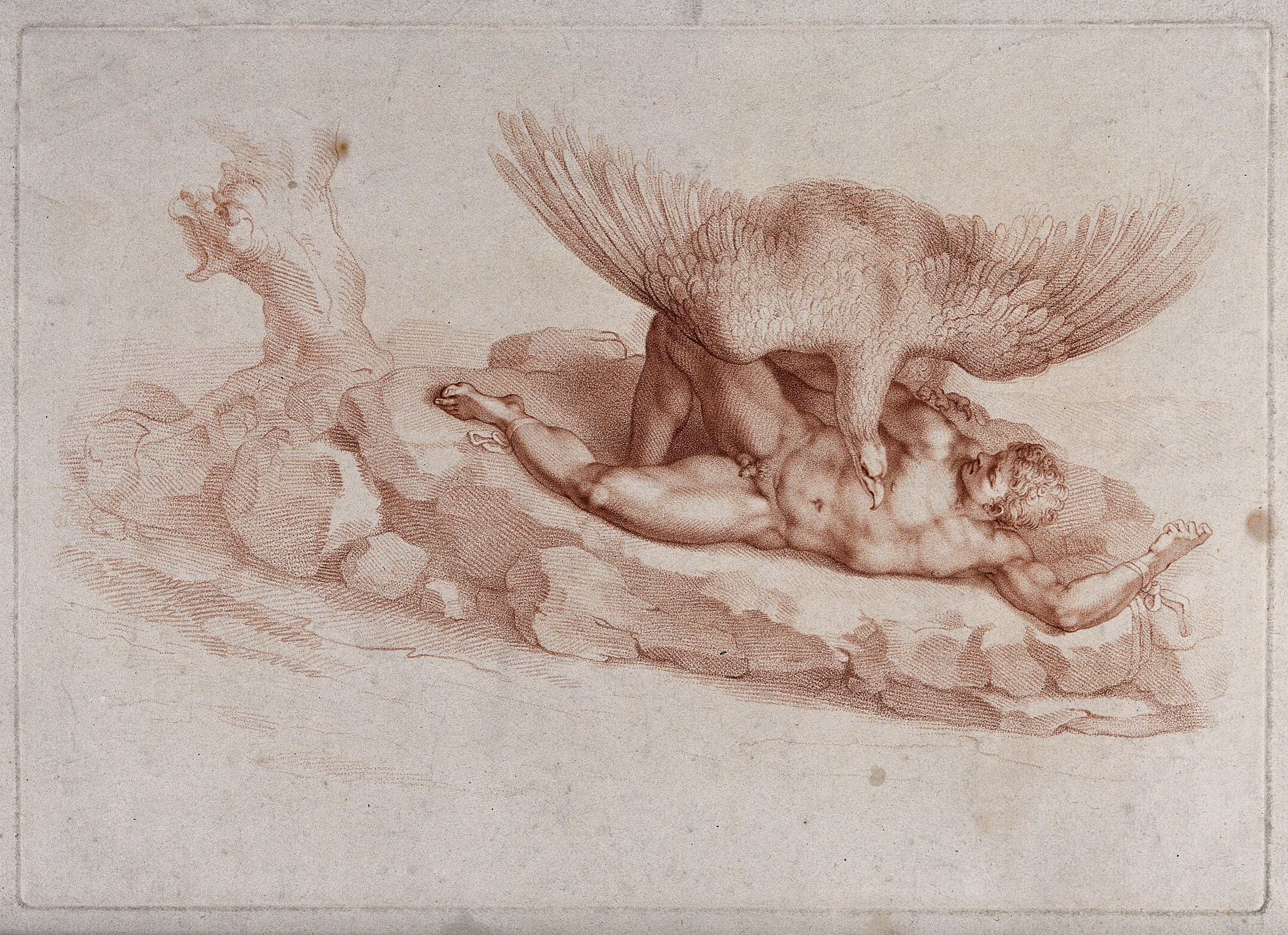 Prometheus was one of the Titans, a divine figure in Greek mythology associated with the origin of fire. In the legend retold by Hesiod, Zeus is tricked by Prometheus into giving fire to Mankind. As a punishment Zeus has him bound to a pillar, his liver eaten daily by an eagle, and renewed every night until he is finally freed by Heracles. The original artwork contains lettering in pencil above the print: "Prometheus and the vulture."